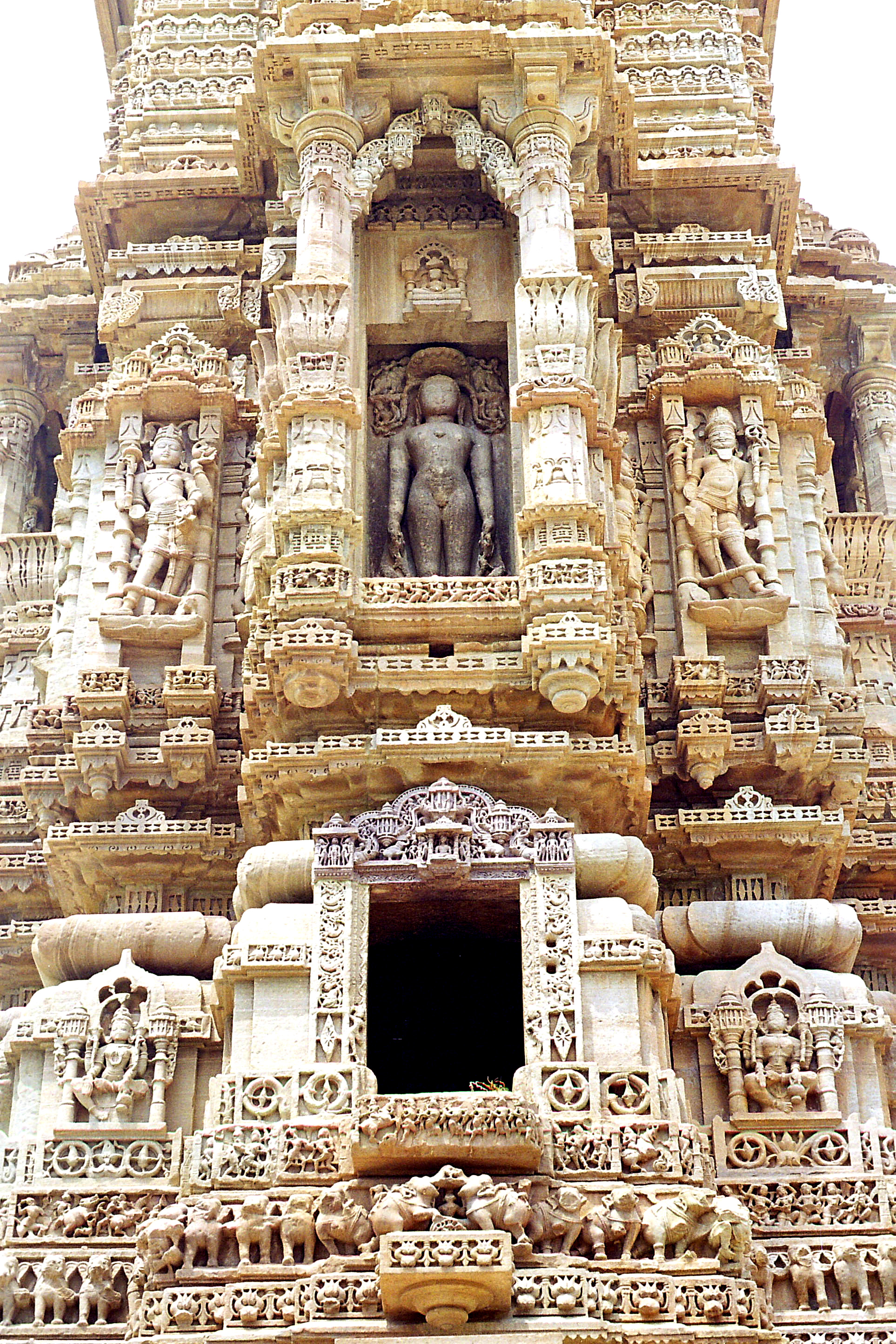 Shanthinath Temple, Chittorgarh, Rajasthan, India